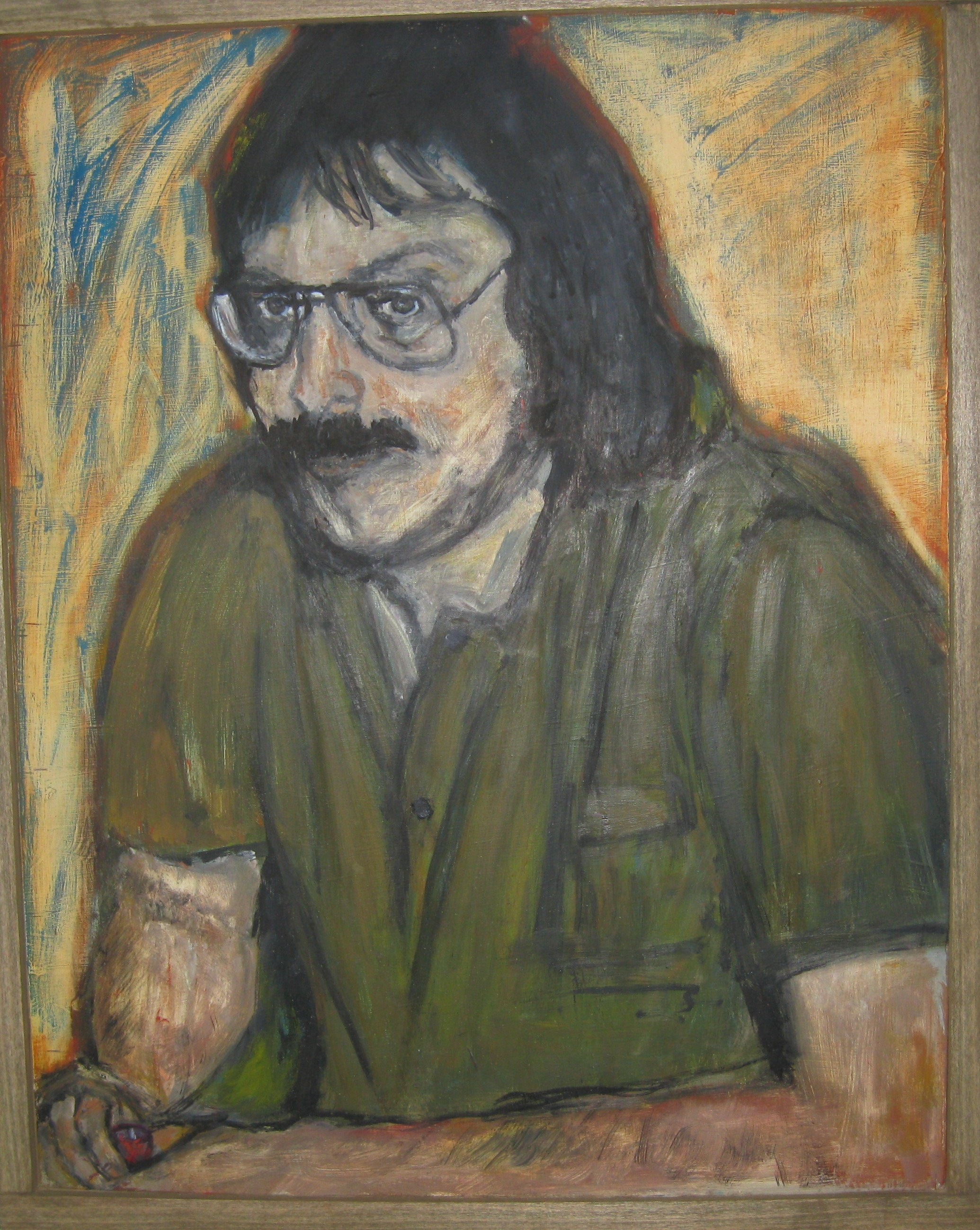 Painting of Ron Kolm